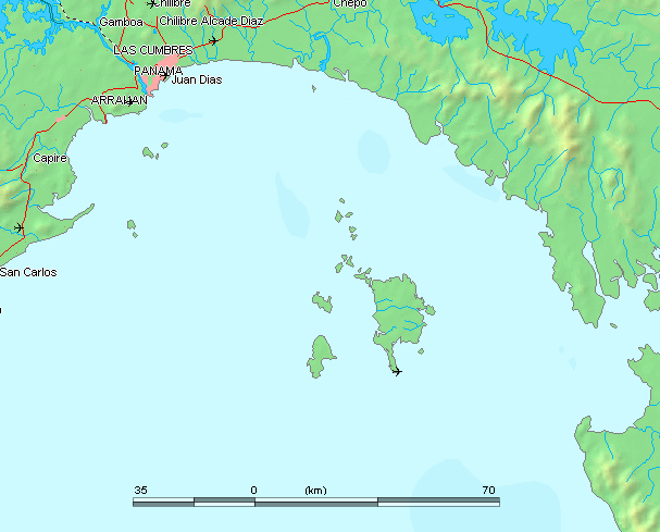 Pearl islands, Panama